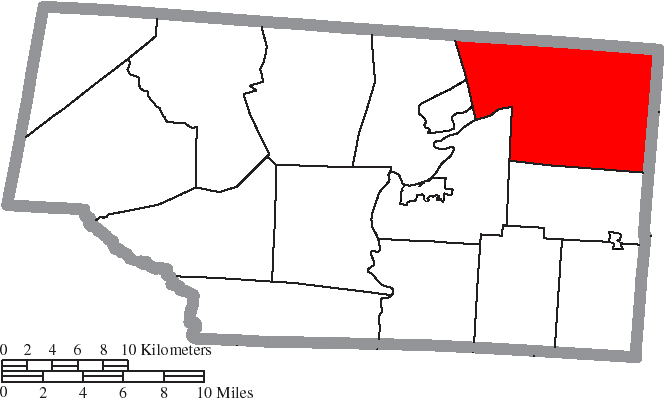 Map of the municipal and township boundaries of Pike County, Ohio, United States, as of the 2000 census, with the location of Jackson Township highlighted. Township borders are shown only in unincorporated areas in order to differentiate incorporated and unincorporated areas more clearly.